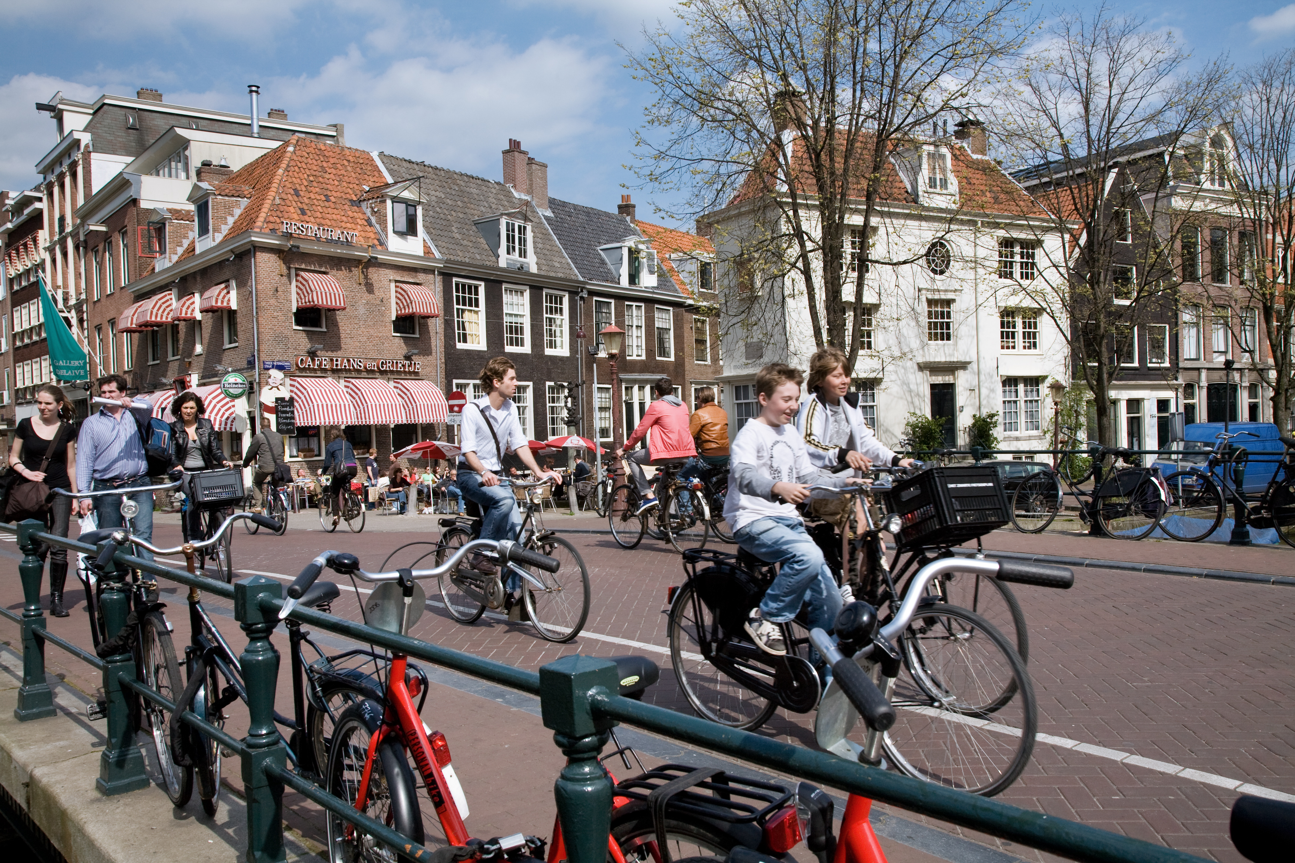 Street scene in an Amsterdam Channel. The Netherlands